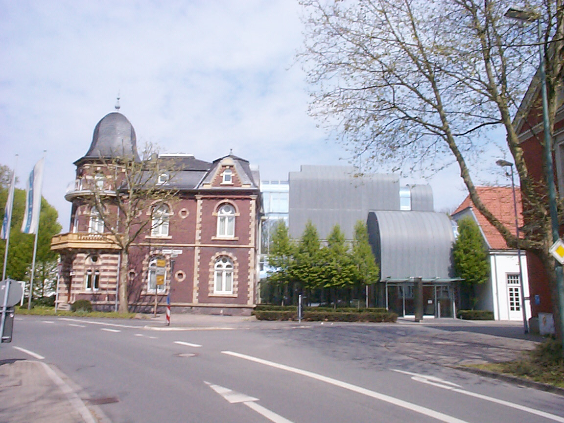 Ahlen, Germany. Foundation of arts in two old houses, interconnected by a modern building. Founder is Th. F. Leifeld (†2005), a businessman who sold his factory.